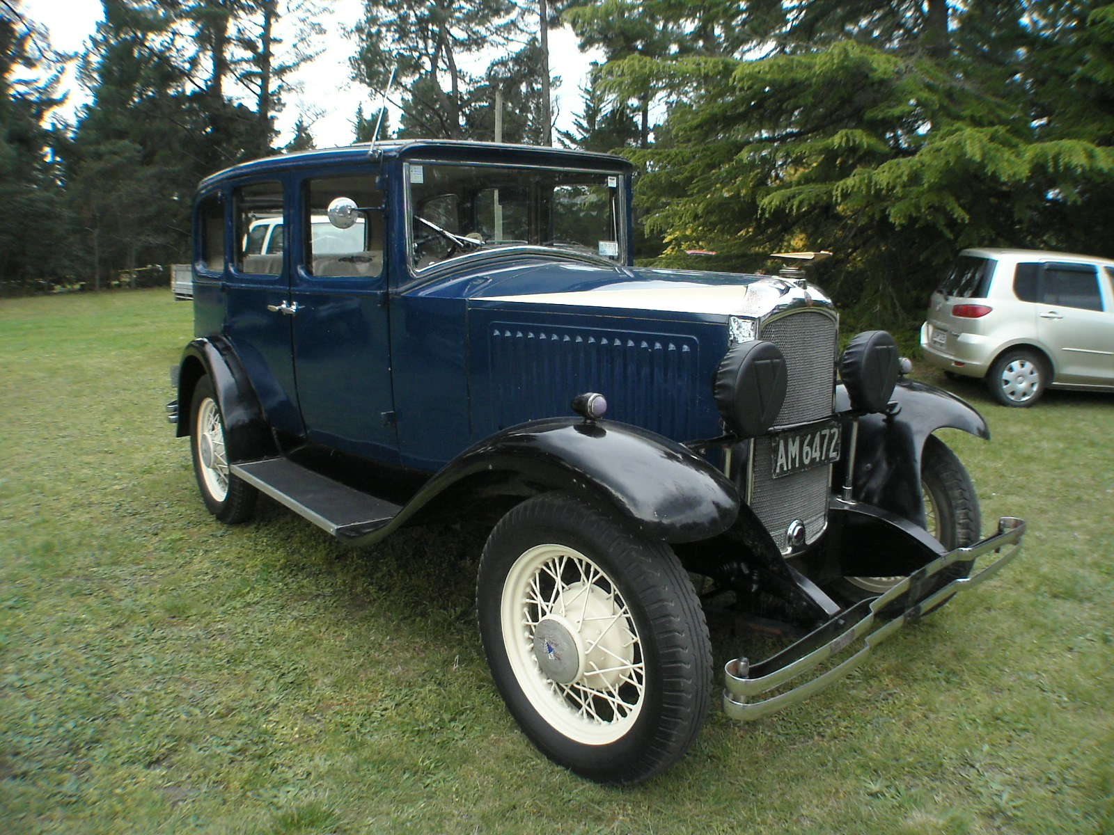 Spotted at a swap meet in 2012. Christchurch New Zealand